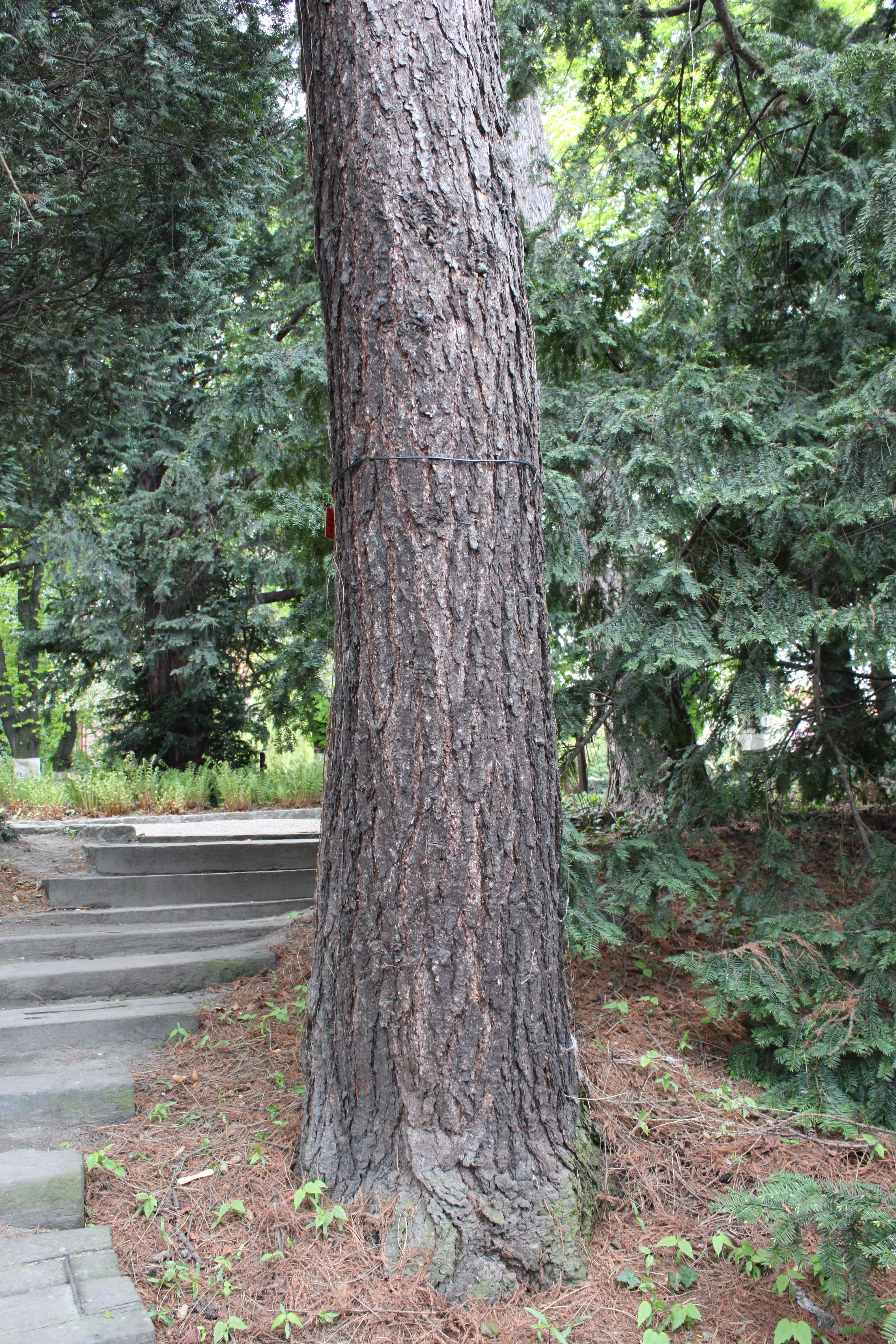 Larix decidua subsp. polonica, trunk in Botanical Garden in Wrocław